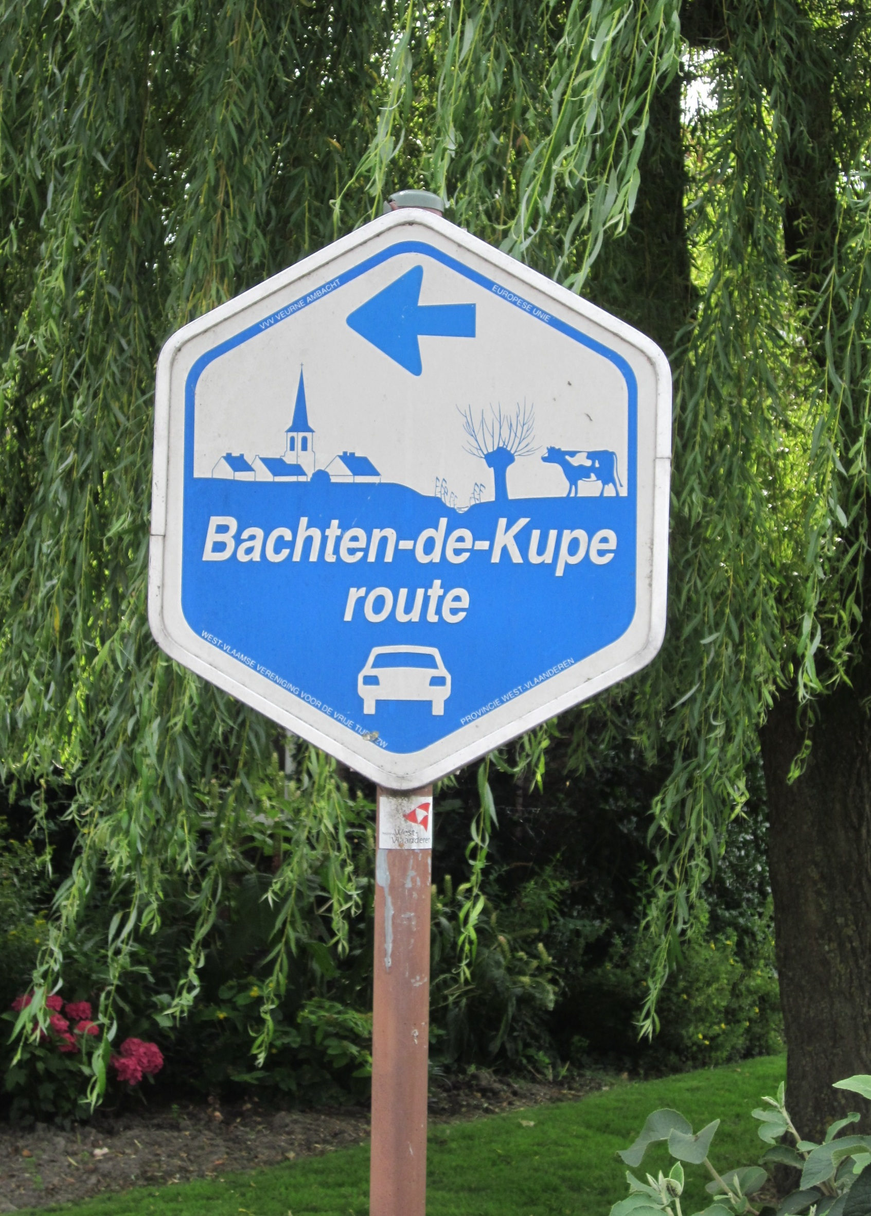 Road sign Bachten-de-Kupe route